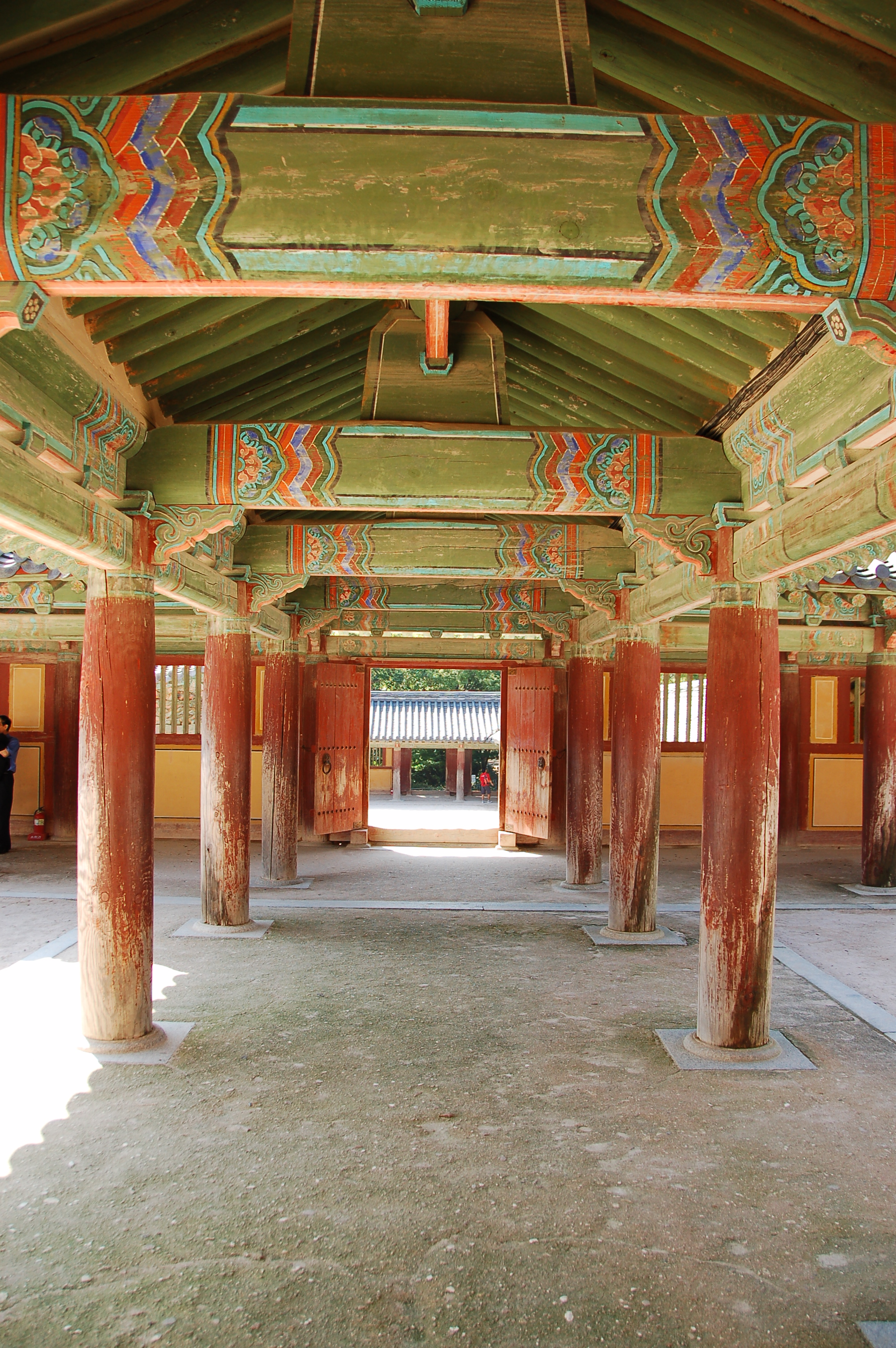 The Moo-sol-jon hall in Bulguksa, South Korea, was used as a place to give lectures on sutras. It is called Moo-sol (or no-word/non-lecturing) hall because it is not possible to teach the essence of the Buddha’s teachings or the depth of truth through language. In 670, the Grand Master Ui-sang taught here for the first time. Since its construction, it has been renewed and repaired throughout the centuries and restored to its original form in 1973. Its architectural style belongs to that of the later Jo-son dynasty.